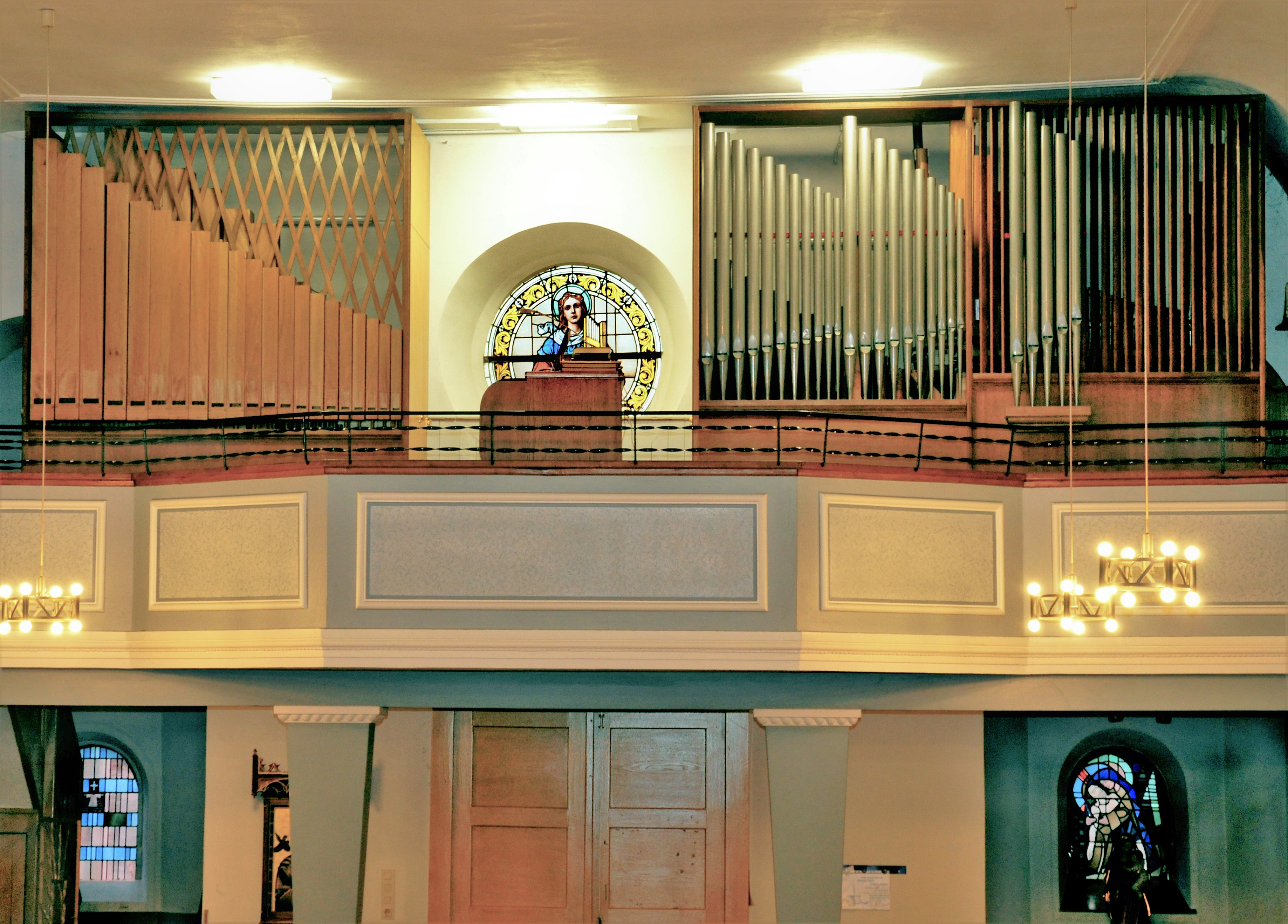 Hugo-Mayer-organ of the church in Schwarzenbach, Saarland, Germany